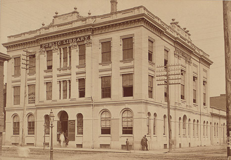 The Mechanics' Institute at Church and Adelaide Streets, Toronto, Canada. The Toronto Public Library Board took over the collections and building in 1883 after Toronto voters approved the free library by-law. The building remained a branch of the library until 1927, and was demolished in 1949.